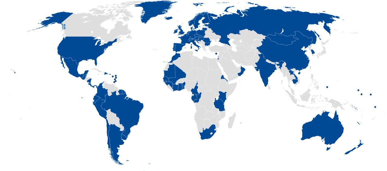 World map of International Whaling Commission (IWC) members/non-members, 2006; based on Image:BlankMap-World-v2.png See IWC member countries and commissioners for the full list.